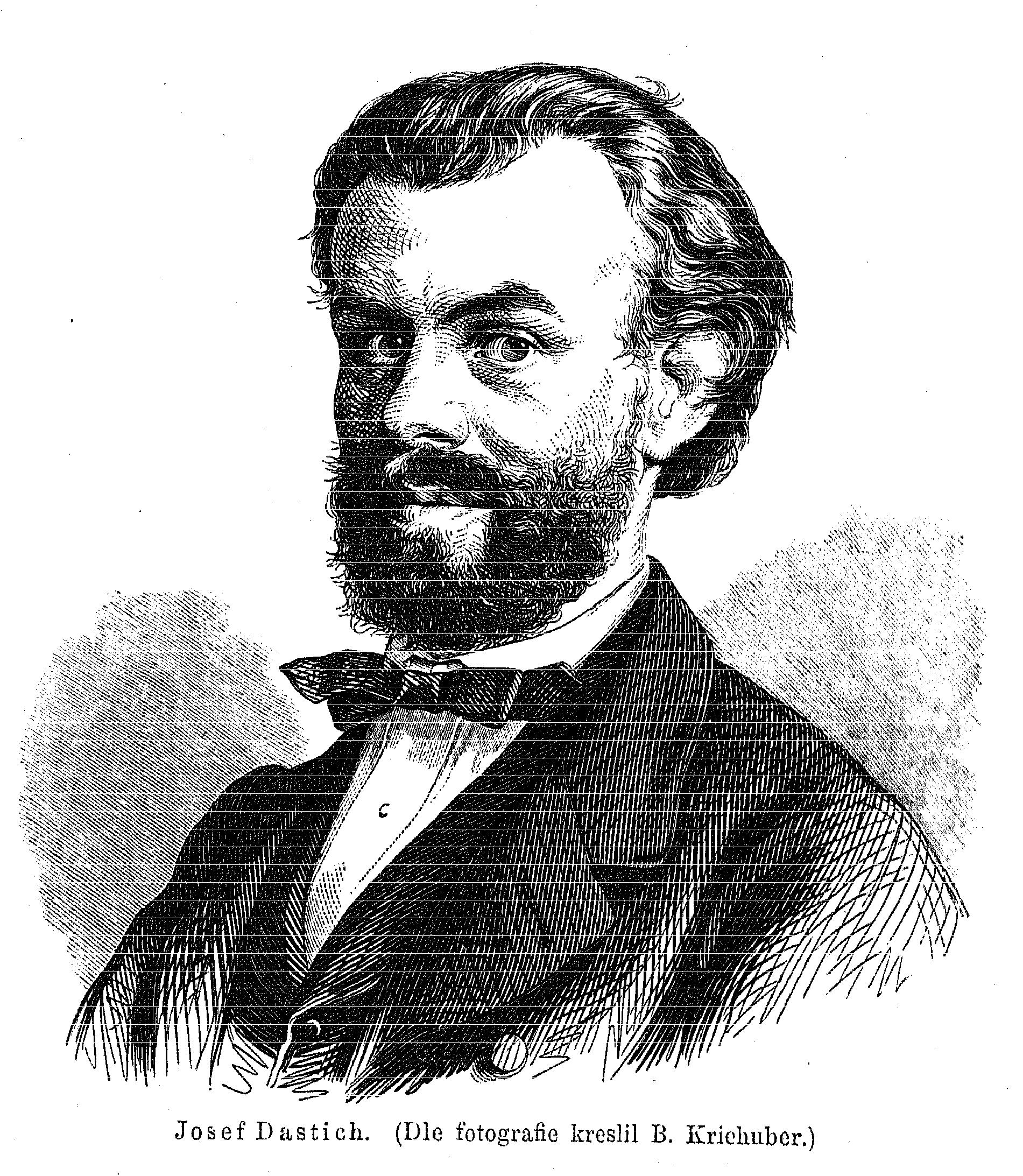 Portrait of Josef Dastich (1835 - 1870), Czech philosopher - follower of Johann Friedrich Herbart.